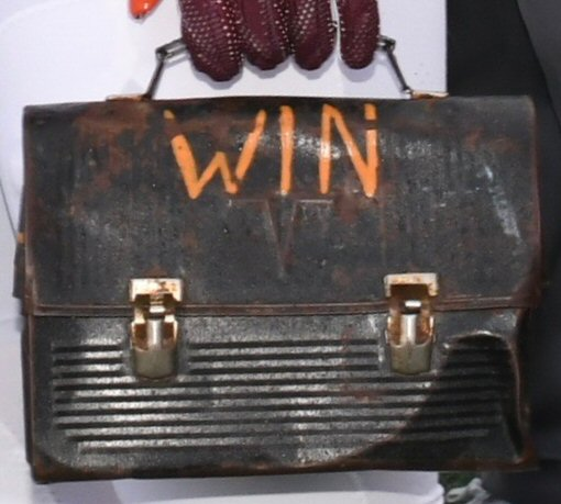 Ricky Walker (#8) holds the Virginia Tech "lunch pail". The lunch pail is a symbol of the workman-like mentality of Bud Foster's defense.